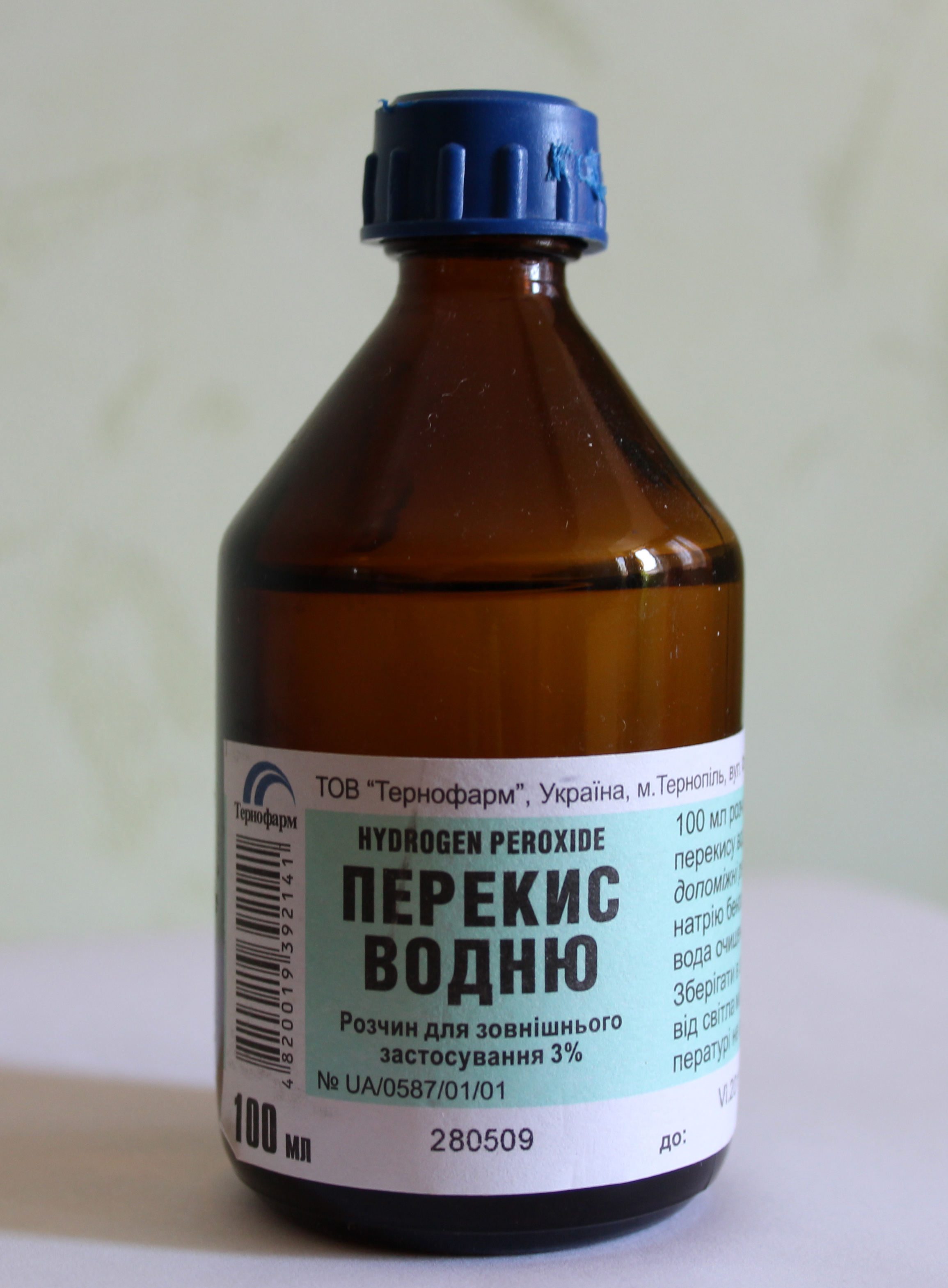 Hydrogen peroxide